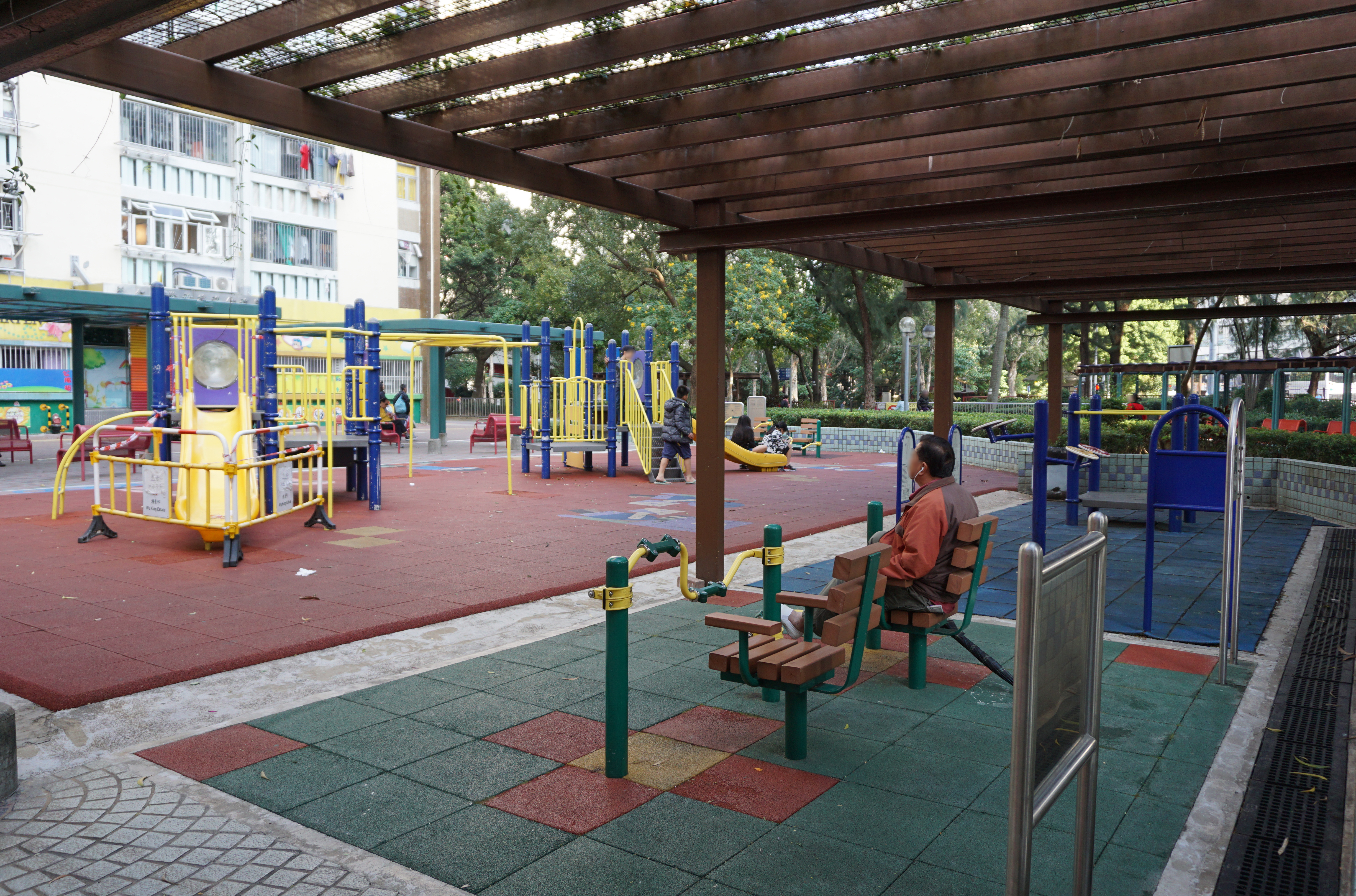 Wu King Estate in Tuen Mun, Hong Kong.